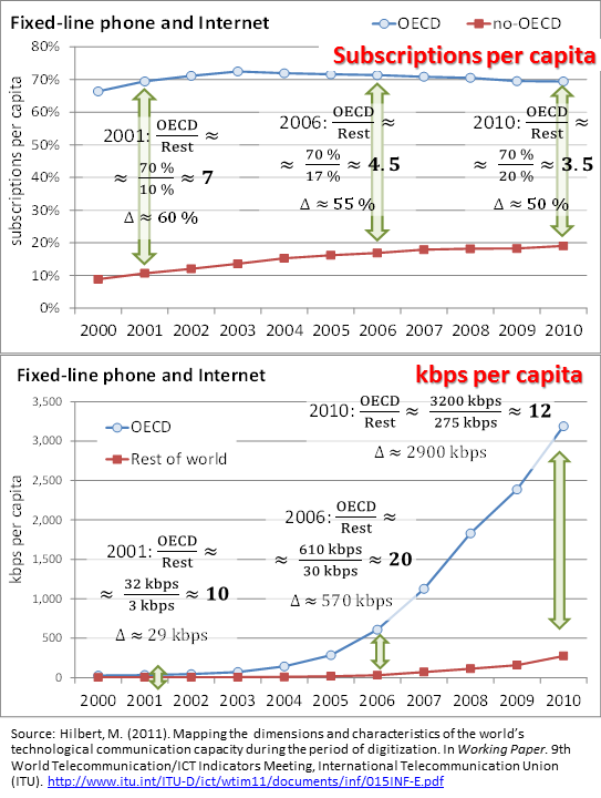 Shows the global digital divide in terms of ICT devices and kbps